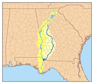 Map of the Apalachicola Basin (ACF Basin) watershed and main tributaries — in the Southeastern United States. With the Flint River of Georgia highlighted (on right—east). I, Pfly, created it based on USGS data.